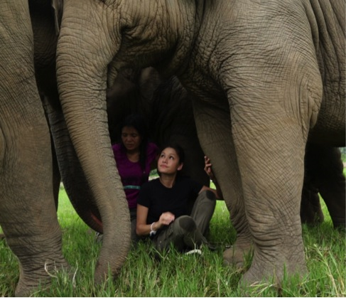 A photo of Eunice Olsen for WomentalkTV showing her in thailand with an elephant